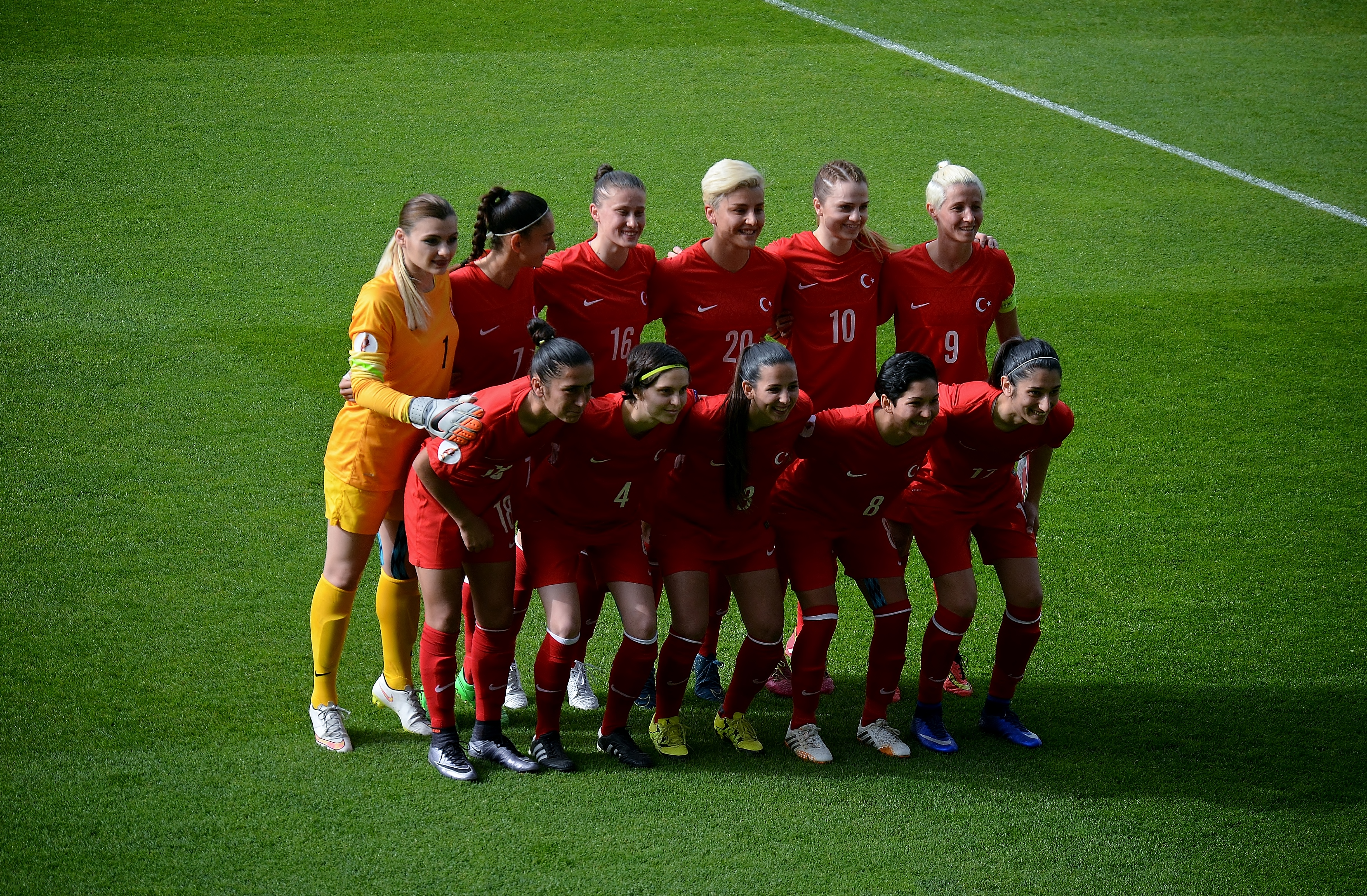 Turkey women's national football team at the UEFA Women's Euro 2017 Qualification home match against Germany on April 8, 2016